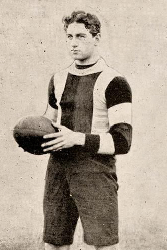 Photograph of Alan Irwin from the 1910 Weekly Times Victorian Footballer Postcard Series